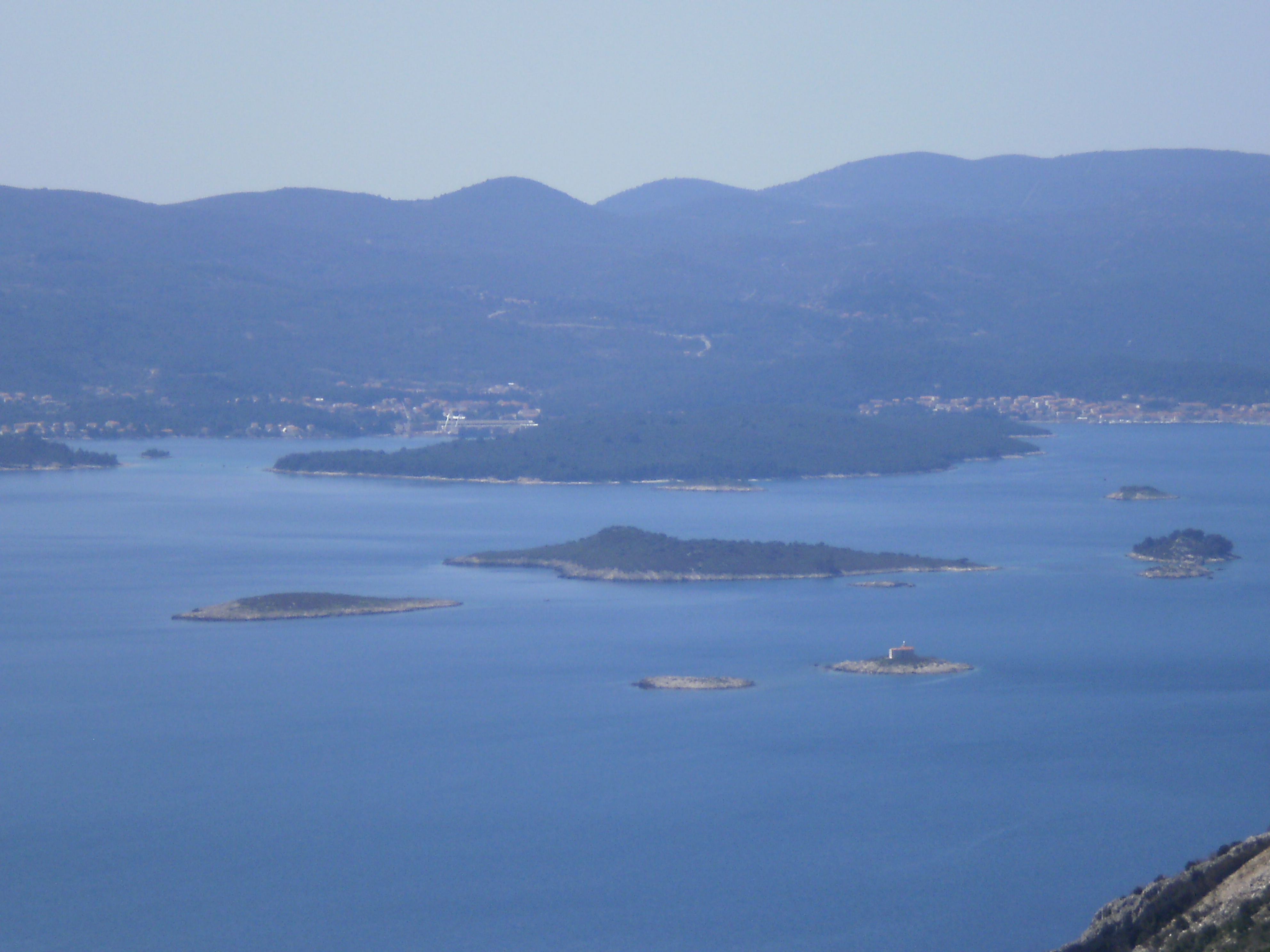 Islands of Pelješac channel